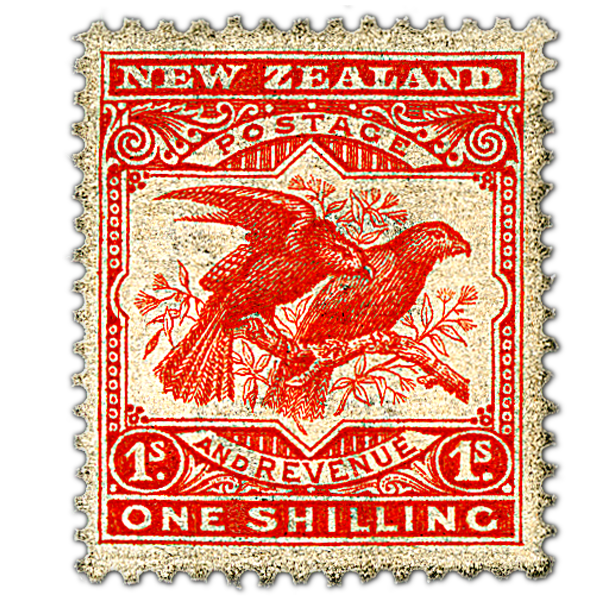 Kea (Nestor notabilis) depicted on the left of the stamp is a parrot about 46 cm long, with olive-green feathers and scarlet under wings. It is a bird of great personality, raucous and inquisitive. Kākā (Nestor meridionalis), on the right is a parrot about 45 cm long, is often heard before being seen - its loud, harsh call travelling some distance. Its appearance is striking - bright red-orange neck, abdomen and rump, olive-green above, with scarlet under wings which can be seen when the bird is in flight.